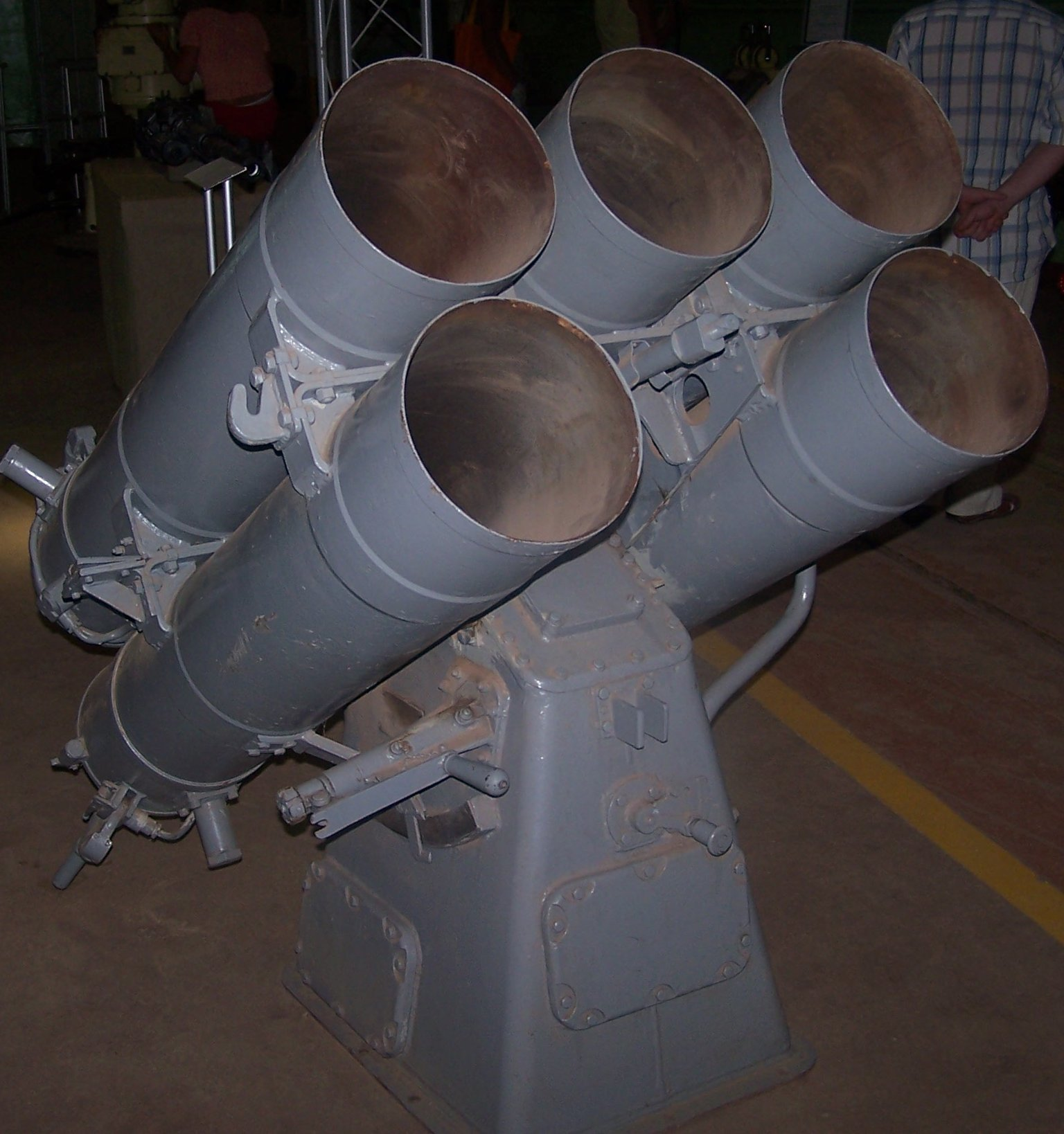 Soviet RBU-1200 depth-charge launcher